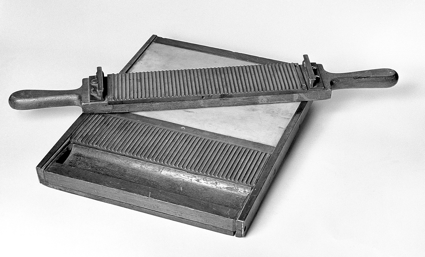 Pill making machine General Collections Keywords: Pharmaceutical; S Maw , Son and Sons